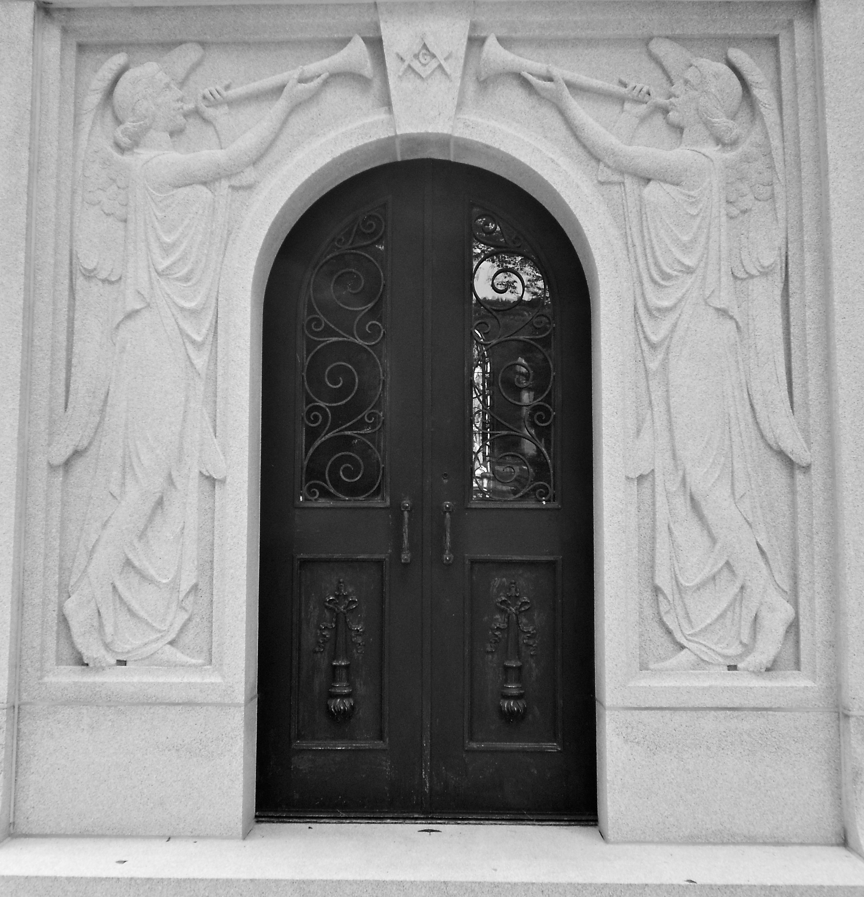 West Laurel Hill Cemetery Art object in West Laurel Hill Cemetery in Montgomery County, Pennsylvania on the NRHP